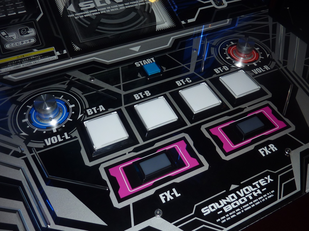 Konami - Devices of the "SOUND VOLTEX"